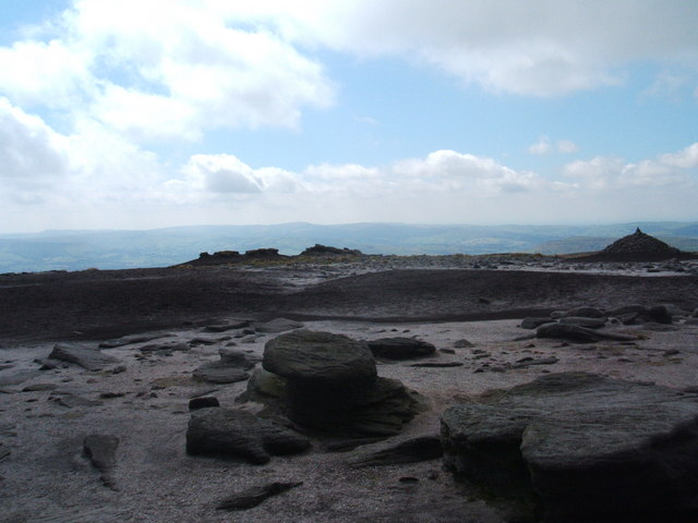 Cairn south west of trig point at Kinder Low Very badly eroded , with little if any vegetation